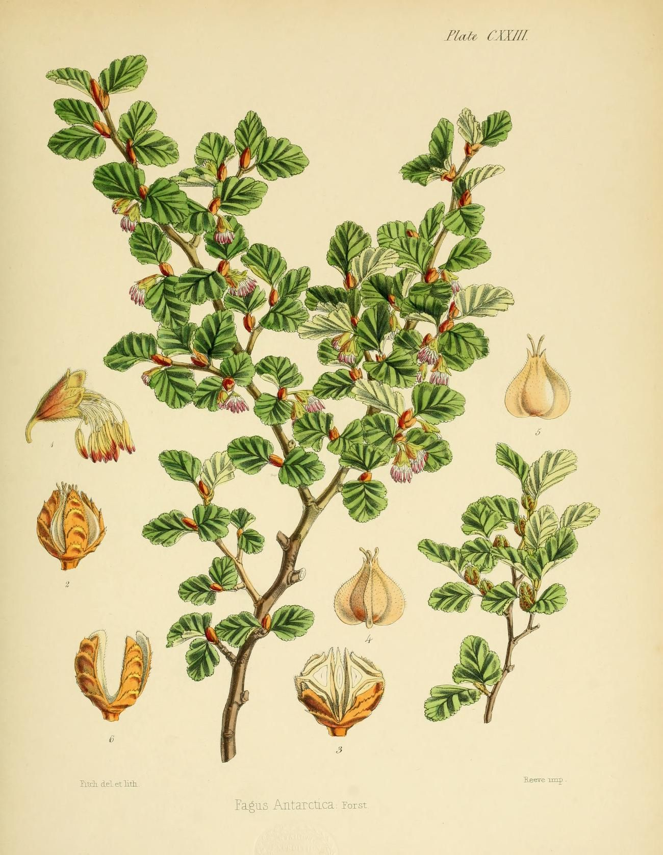 jpg of Plate CXXIII of Hooker's Flora Antarctica. Fagus antarctica Forst.